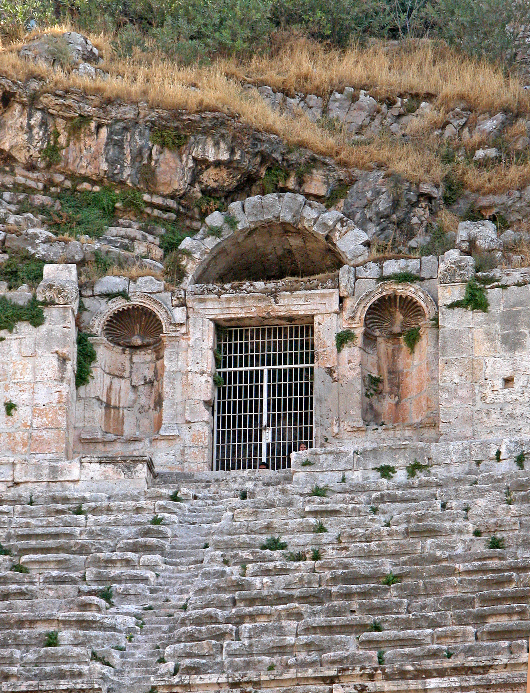 The entrance at the top of the theatre, there was nothing to see behind the gate. Amman, Jordan